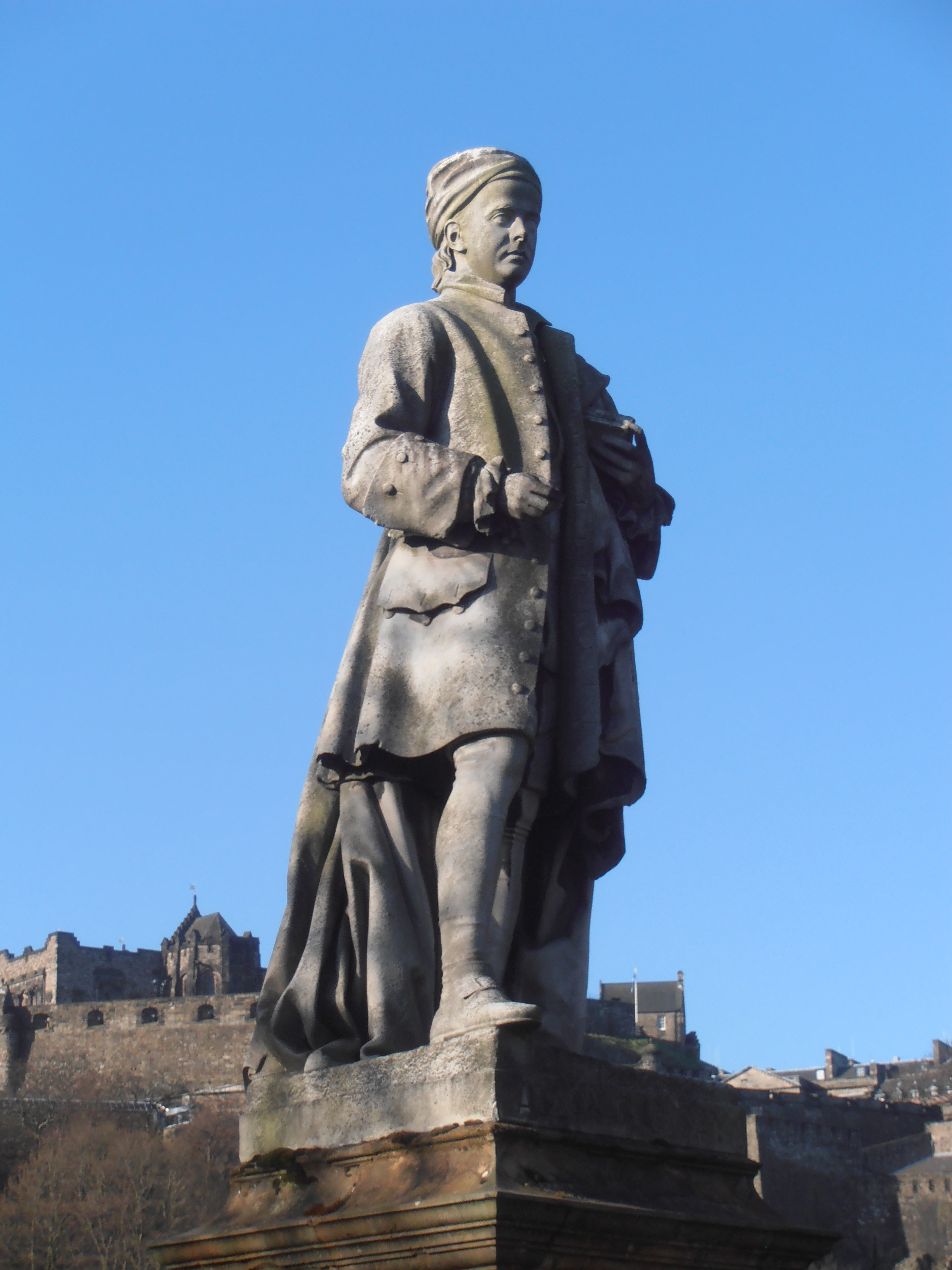 Statue of Allan Ramsay (1850) by Sir John Steell in West Princes Street Gardens, Edinburgh